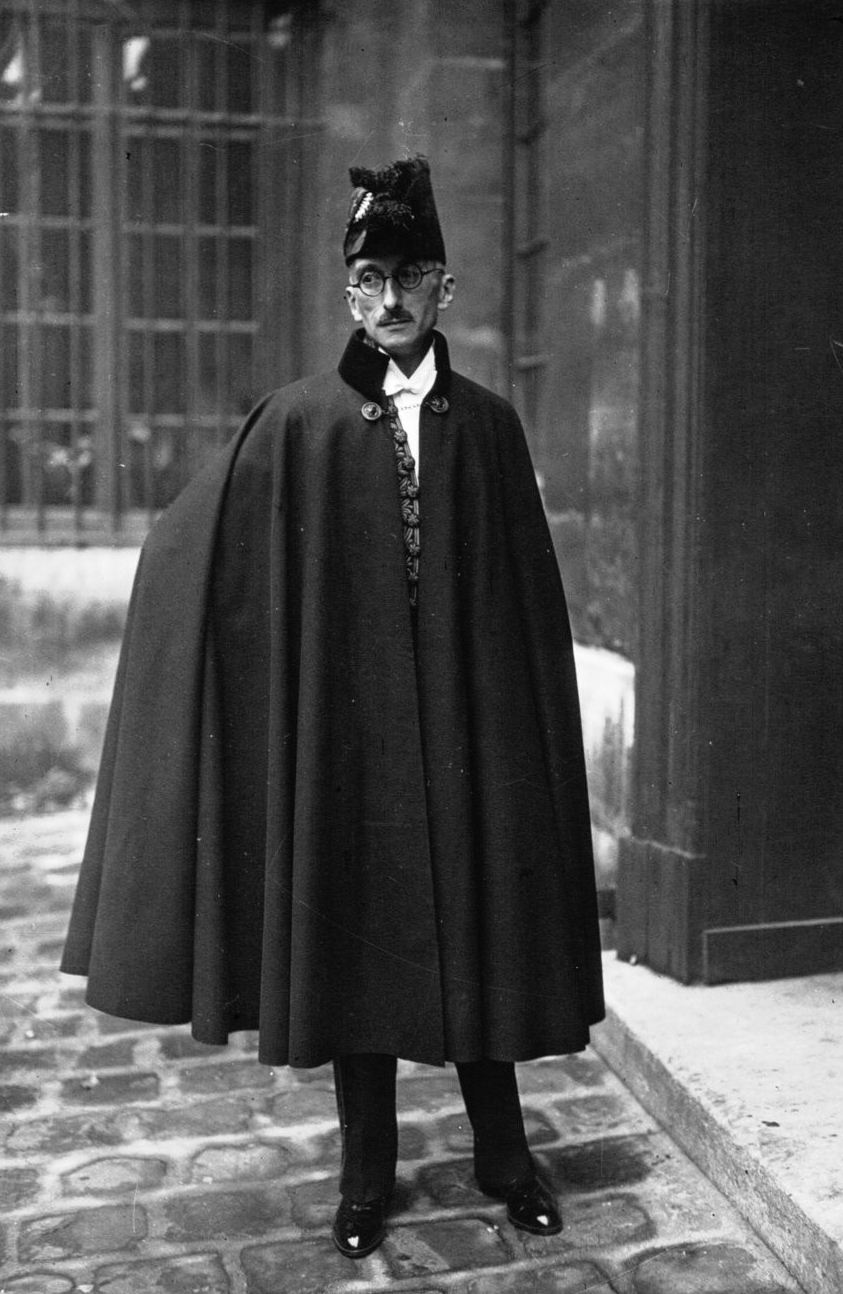 French writer François Mauriac (1885-1970) on his reception at the Académie française in 1933 wearing the ceremonial gran habit vert, hat and black cape.